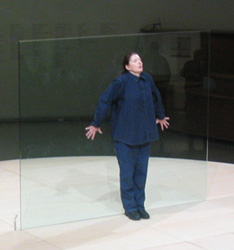 Marina Abramovic - Guggenheim - Seven Easy Pieces - 1st Night